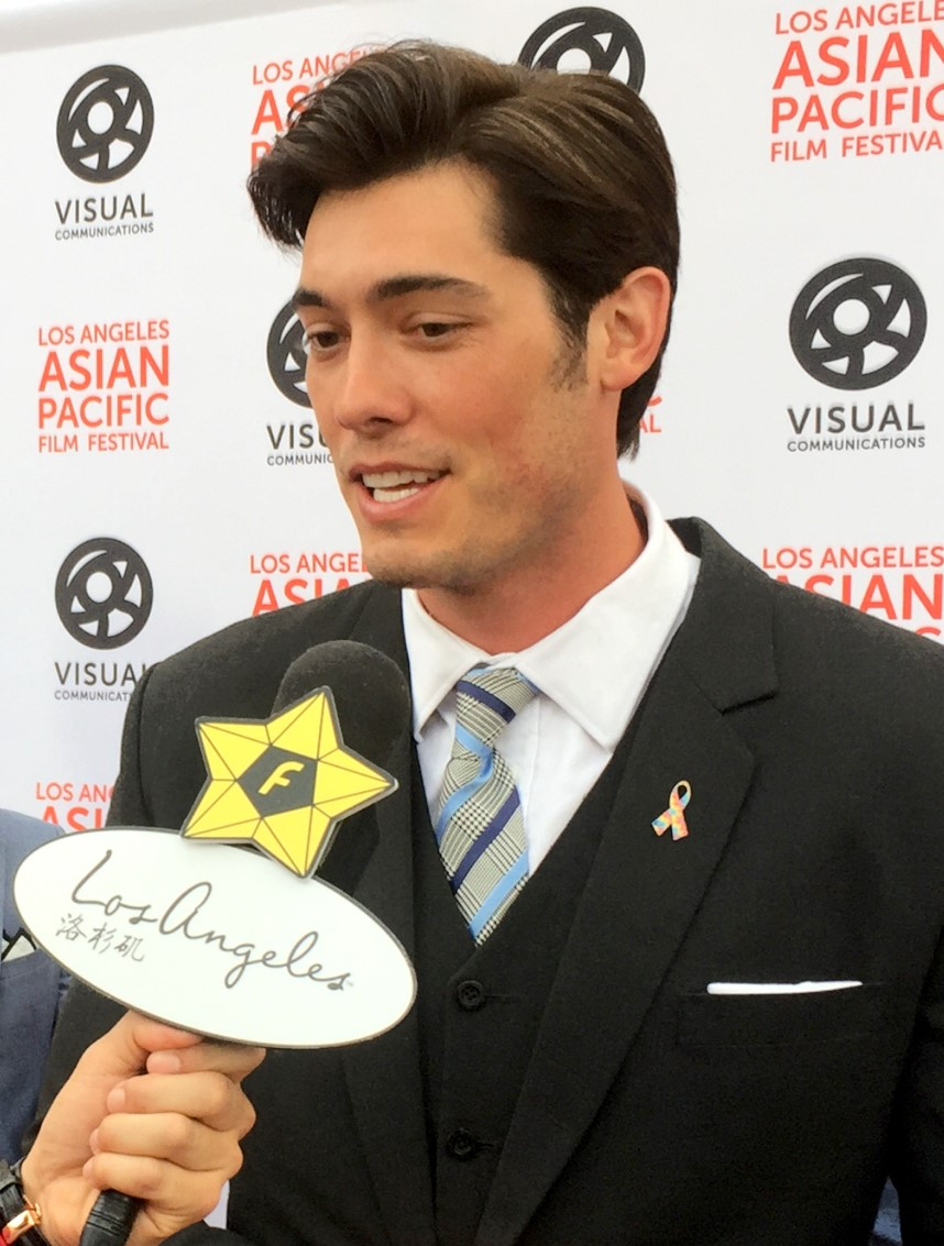 Matt William Knowles at the Los Angeles Asian Pacific Film Festival at the Egyptian Theatre on April 27, 2017 in Hollywood, California.